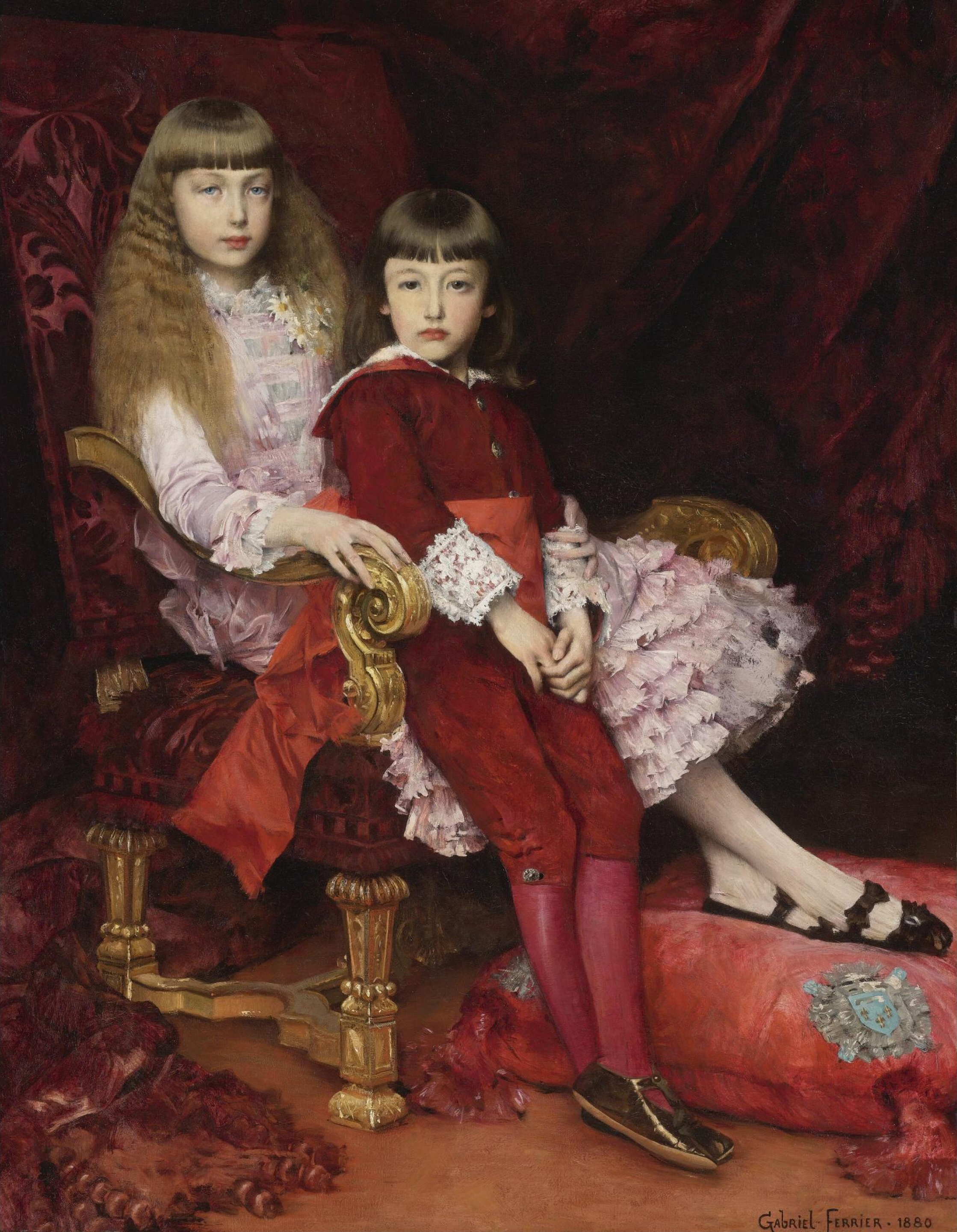 Portrait of the Duke of Chartres' children: The Duke of Guise and one of his sisters, the future Duchess of Magenta